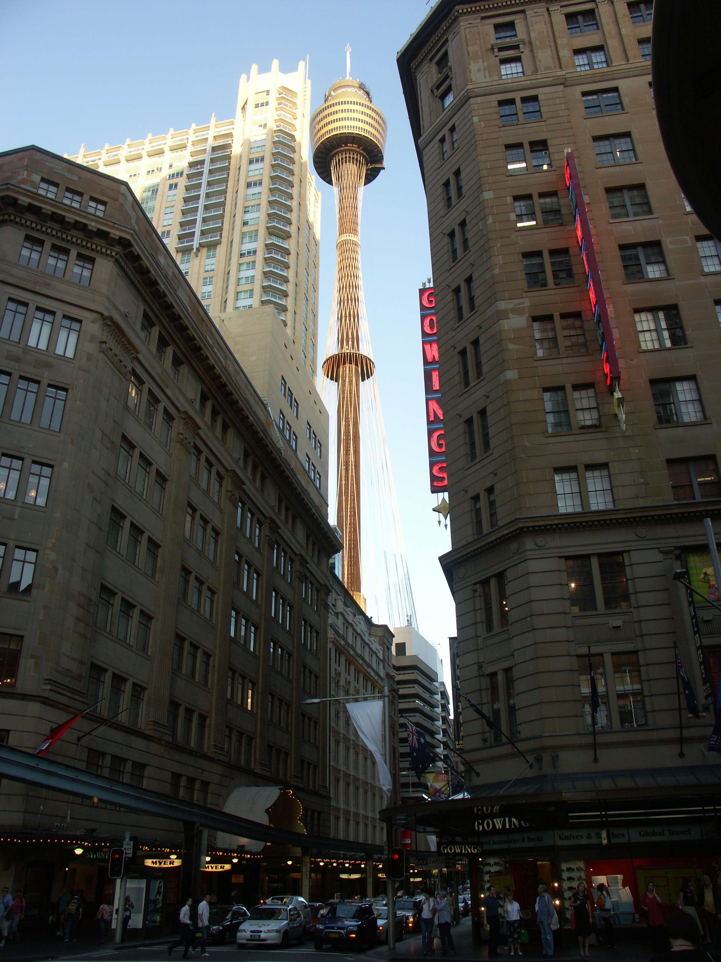 Gowings department store (closed in January 2006) in George Street, Sydney, Australia with Sydney Tower in the background, January 2005.